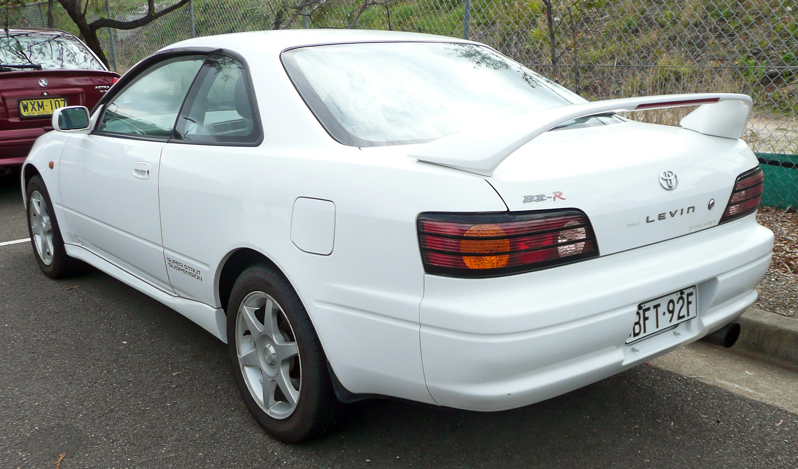 1998 Toyota Corolla Levin (AE111) BZ-R coupe (Japanese grey import). Photographed in Sutherland, New South Wales, Australia.